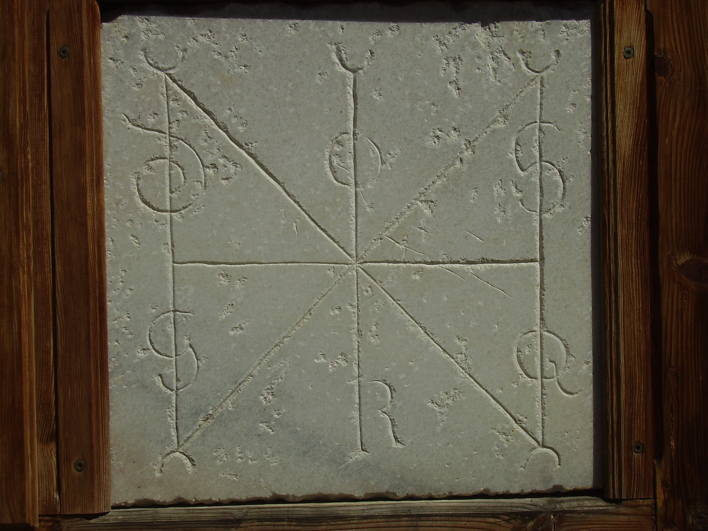 A calque of a marble plate with the monogram of the Emperor Henry II (1014 - 1024) found in Aufhofen, Bruneck, Italy